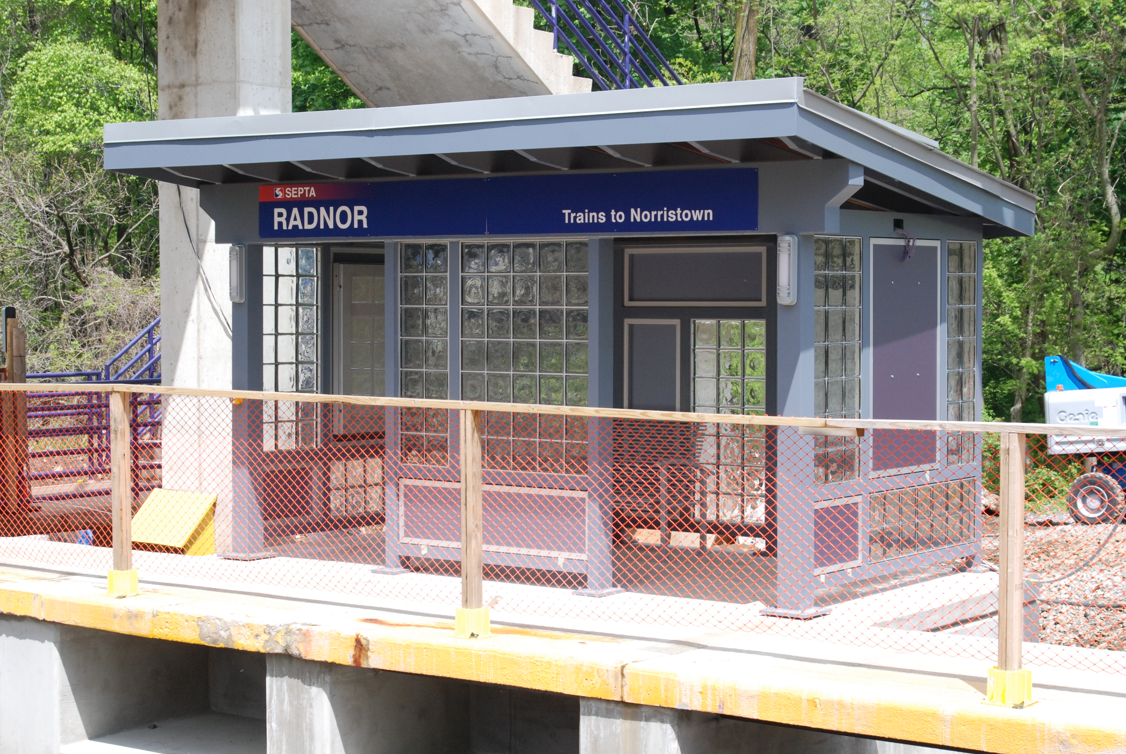 Septa redesigns the Radnor R100 stop with more lighting, new platforms supported by cement (previously brick), and new shelters.